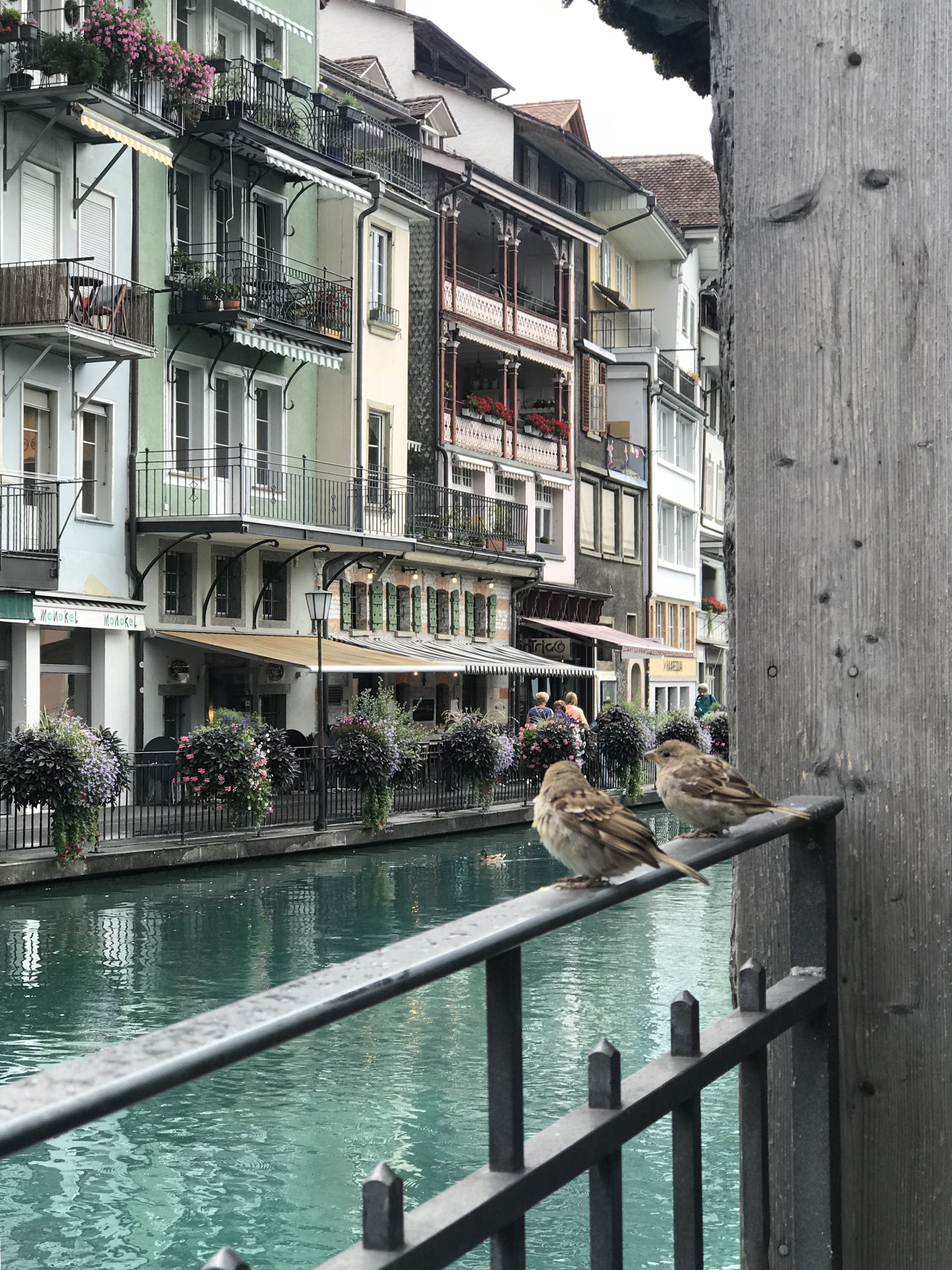 Houses over Aare, Thun, Switzerland (some birds relaxing)